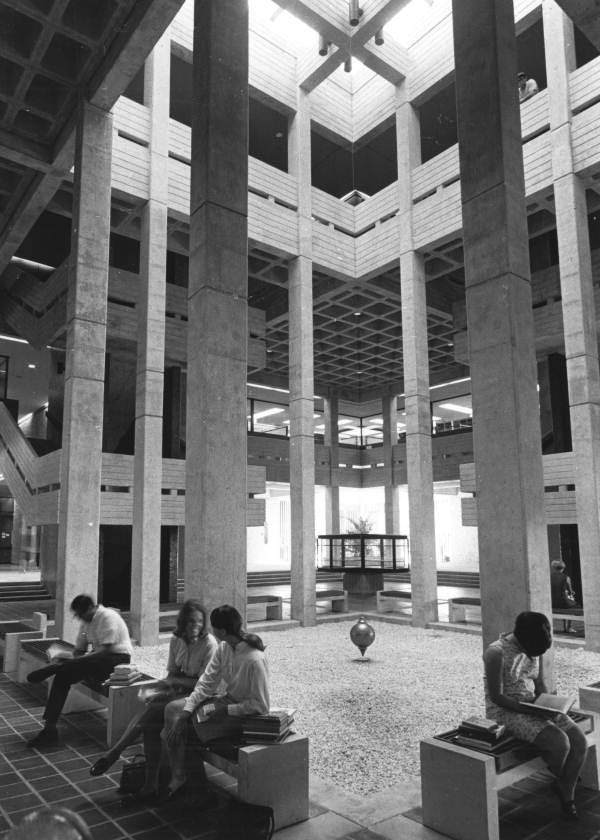 Interior view of the Miami-Dade Junior College Leonard Usina Hall of Science at the south campus - Kendall, Florida